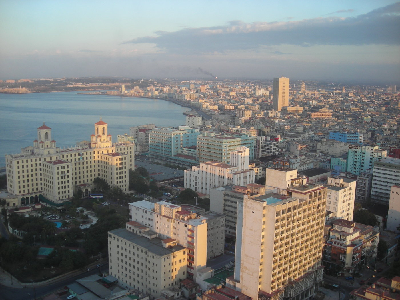 View form Focsa building of the Hotel Nacional and the Havana's Malecón, Cuba.